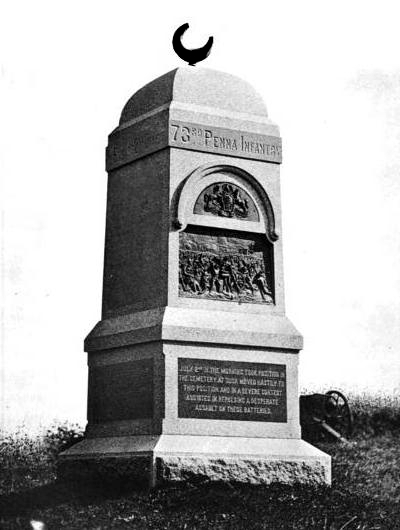 Monument to the 73rd Pennsylvania at Gettysburg. Dedicated by the State of Pennsylvania in 1889; topped by the crescent moon symbol of the Union 11th Army Corps.